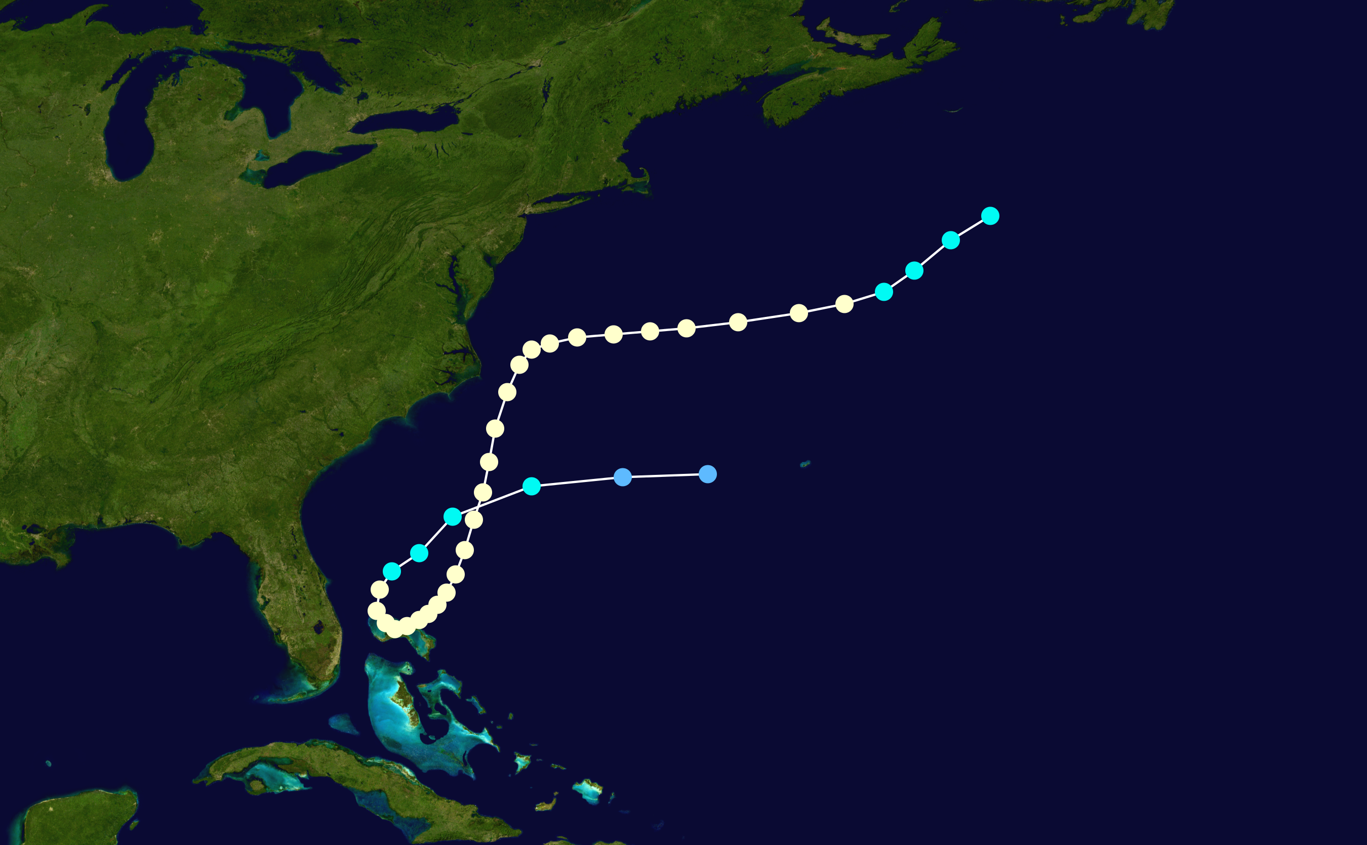 Track map of Hurricane Able of the 1951 Atlantic hurricane season. The points show the location of the storm at 6-hour intervals. The colour represents the storm's maximum sustained wind speeds as classified in the Saffir–Simpson scale (see below), and the shape of the data points represent the nature of the storm, according to the legend below. Saffir–Simpson scale Tropical depression≤38 mph≤62 km/h Category 3111–129 mph178–208 km/h Tropical storm39–73 mph63–118 km/h Category 4130–156 mph209–251 km/h Category 174–95 mph119–153 km/h Category 5≥157 mph≥252 km/h Category 296–110 mph154–177 km/h Unknown Storm type Tropical cyclone Subtropical cyclone Extratropical cyclone / Remnant low / Tropical disturbance